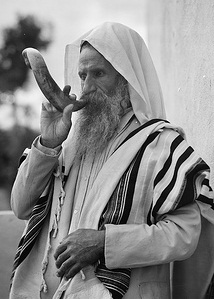 Shofar for the Sabbath Yemenite Jew (cropped).